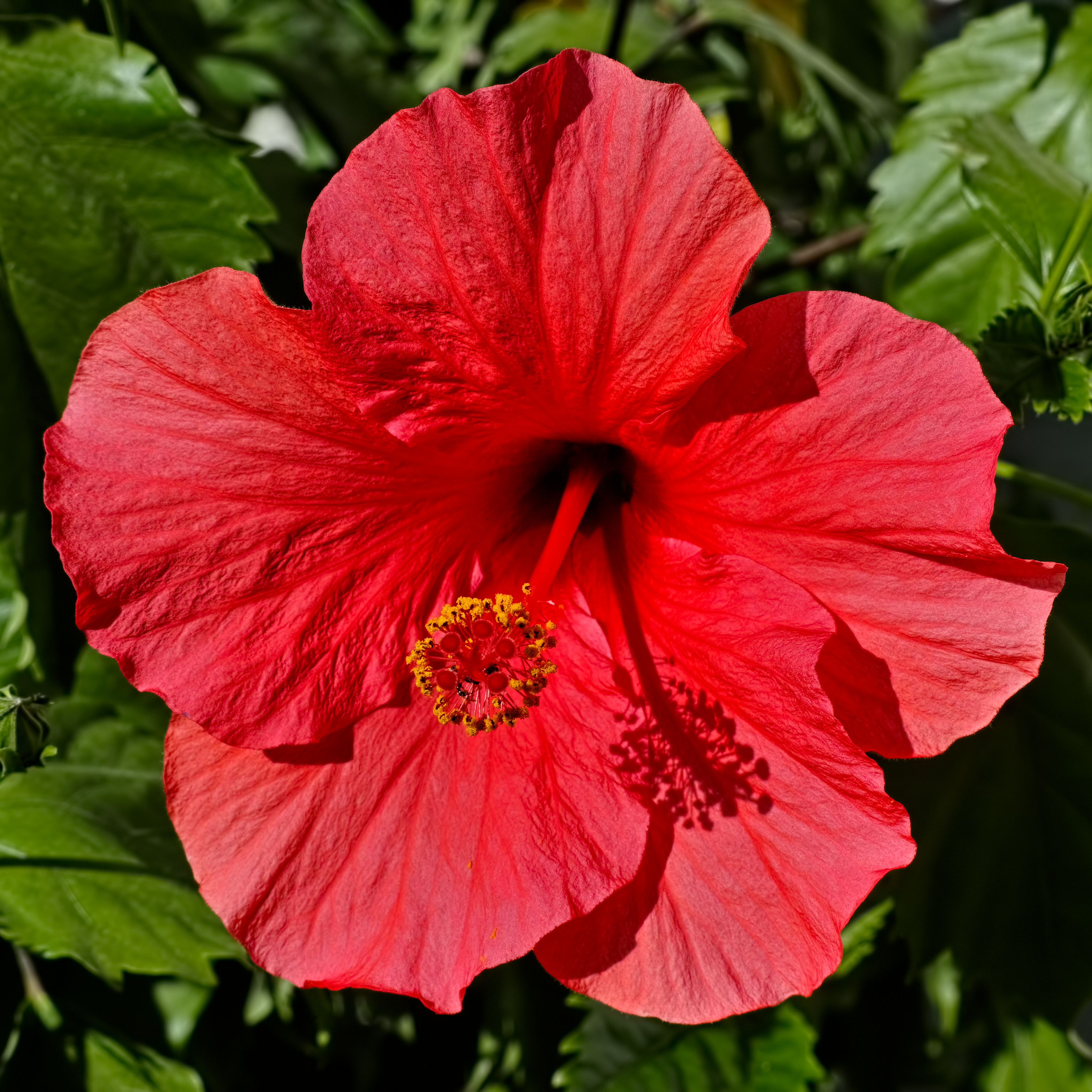 The flower of a Hibiscus rosa-sinensis "Brilliant" in a private garden in Austria on September 20, 2014.